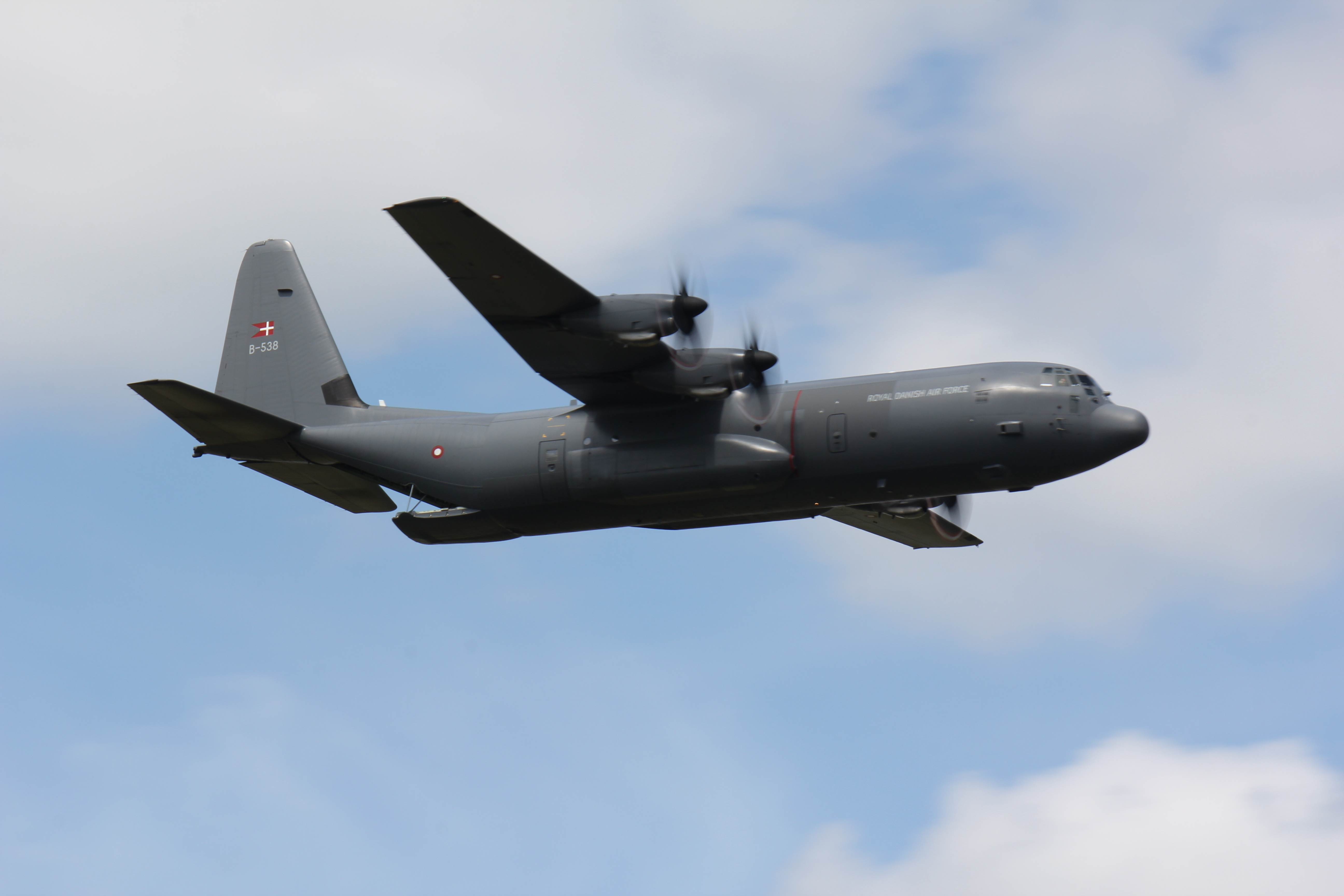 RDAF C-130J over Karup AF Base, Denmark - June 2011